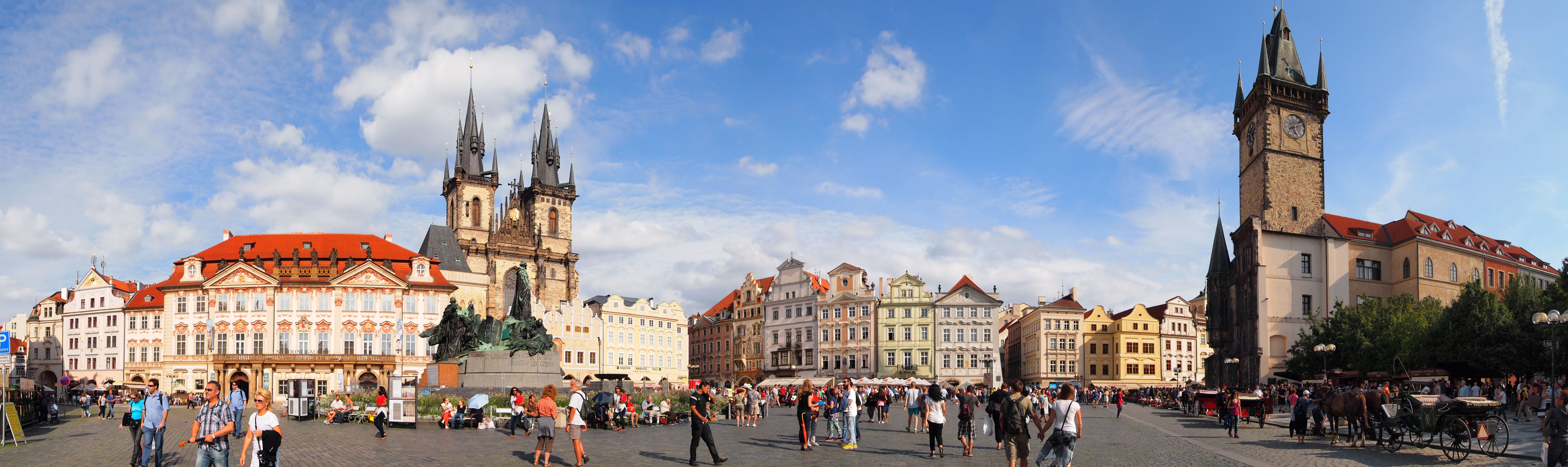 View on the Old Town Square, Prague.